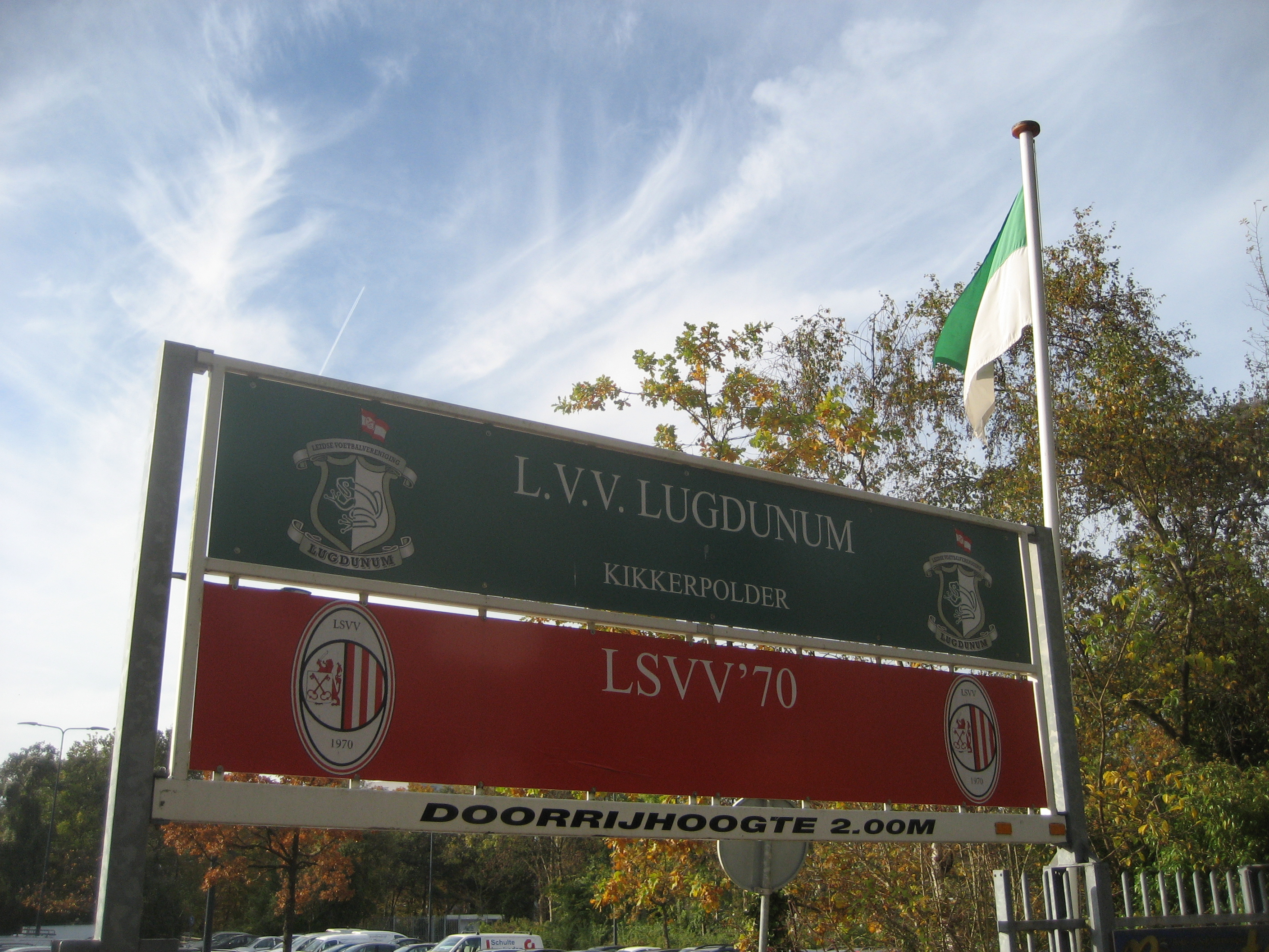 Football club LVV Lugdunum Leiden and LSVV '70 Leiden, Kikkerpolder, Leiden (the Netherlands)